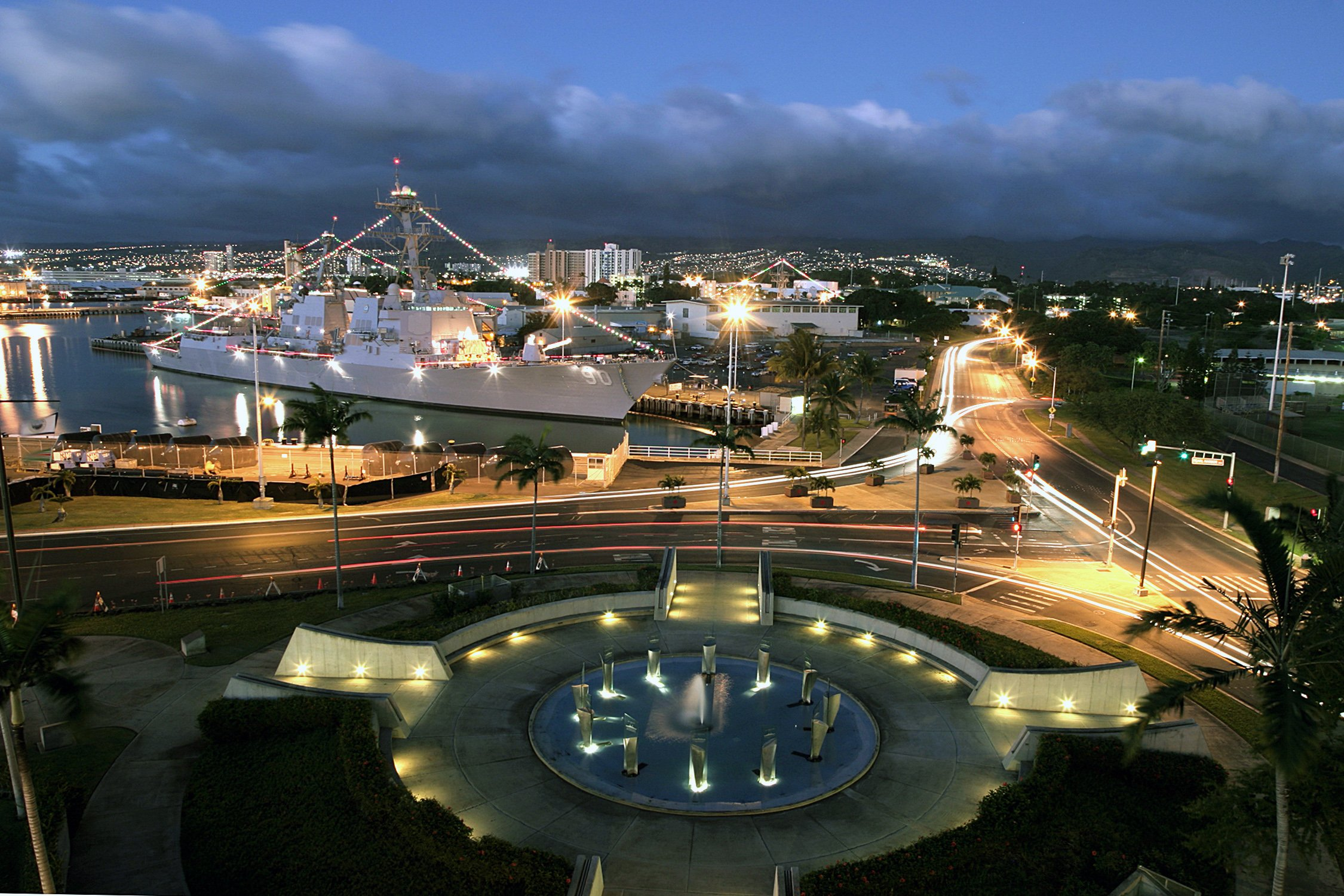 031222-N-3228G-001 Pearl Harbor, Hawaii (Dec. 22, 2003) -- Illuminated by holiday lights, the newly commissioned guided missile destroyer USS Chafee (DDG 90) is moored at Merry Point in her new homeport of Pearl Harbor, Hawaii. Chafee is the 40th Arleigh Burke class destroyer and was commissioned Oct. 18, 2003, in Newport, Rhode Island. The destroyer was named after Sen. John Chafee, who served in the Marine Corps during World War II and as the Secretary of the Navy from 1969-1972.